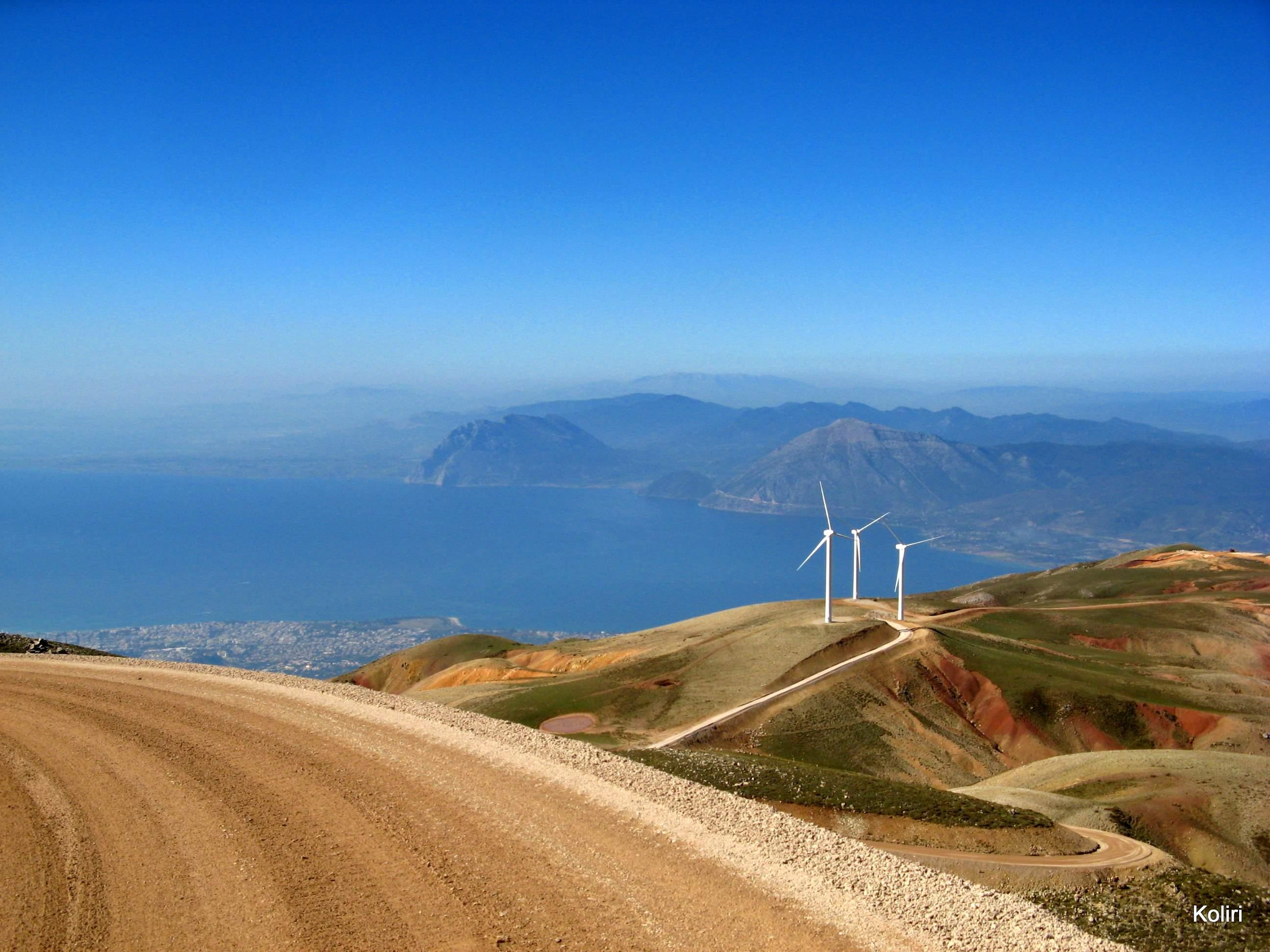 view from the top,with Patra on the lower left side.